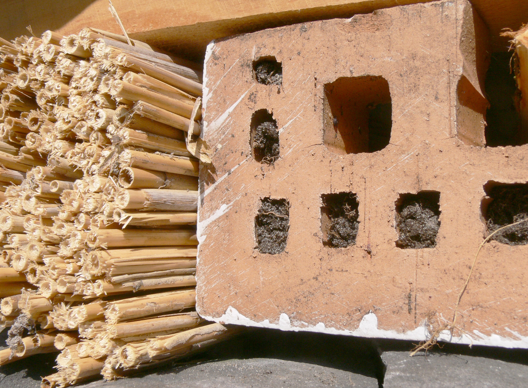 Replacement habitat for inverterbrates (insects..) Zwin natural parc, North-eastern belgium. Detail